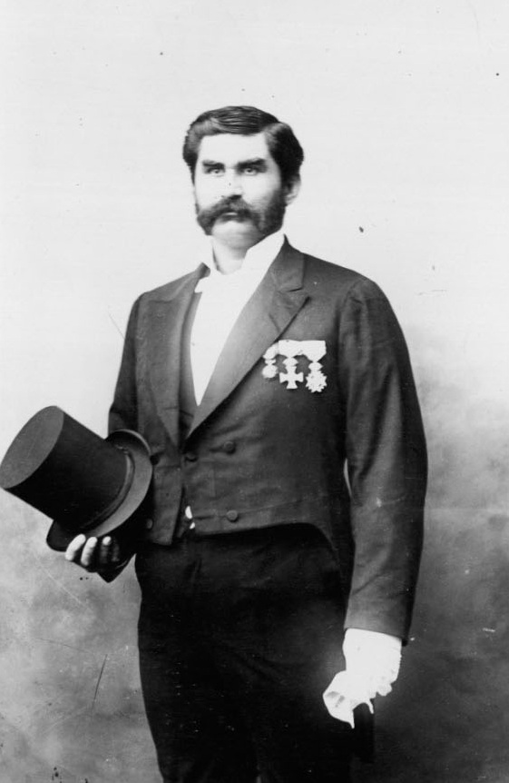 John Tamatoa Baker (1852–1921), a Hawaiian high chief who served as the last royal governor of Hawaii from February 8, 1892 to February 28, 1893.